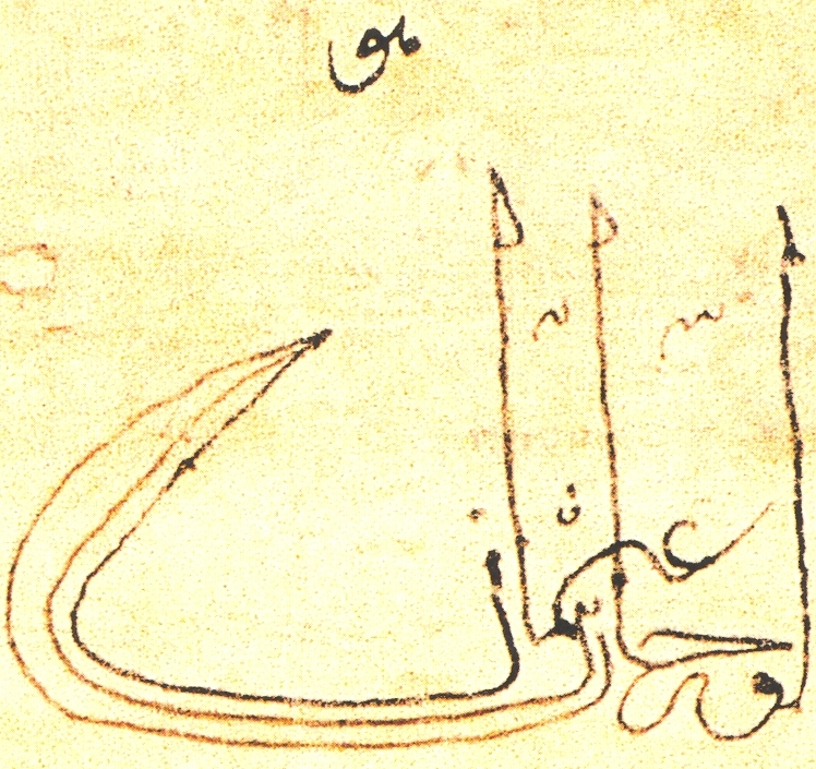 Scanned from an image of an original document (Mulkname) in the Istanbul Topkapi Palace Museum Archives. Document from reign of Orhan (1326-1359)